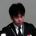 Kunihiko Iwasaki, Professor of the School of Management and Information, University of Shizuoka, attended a panel discussion at the Hotel Hokke Club Sendai in Sendai City, Miyagi Prefecture on November 24, 2016.